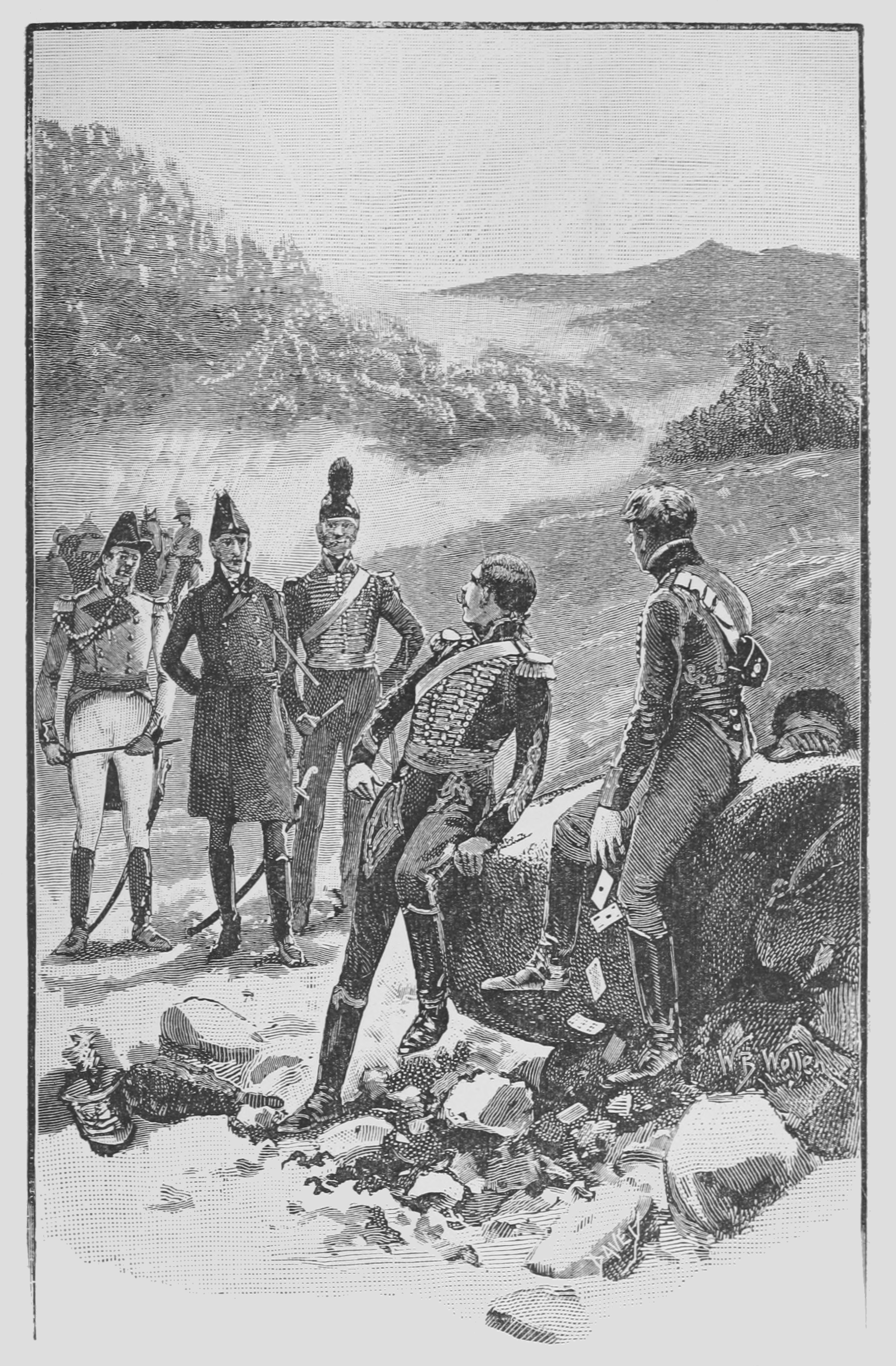 Plate of The Exploits of Brigadier Gerard